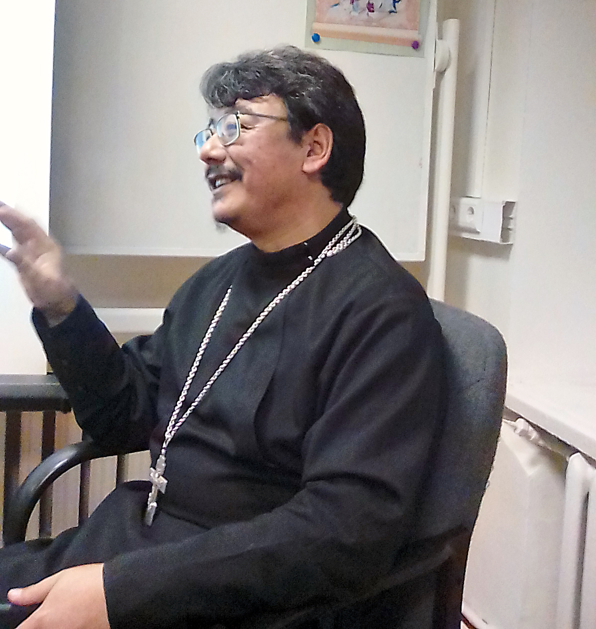 священник Павел Сунь Мин в русско-китайском культурном центре Жар-птица